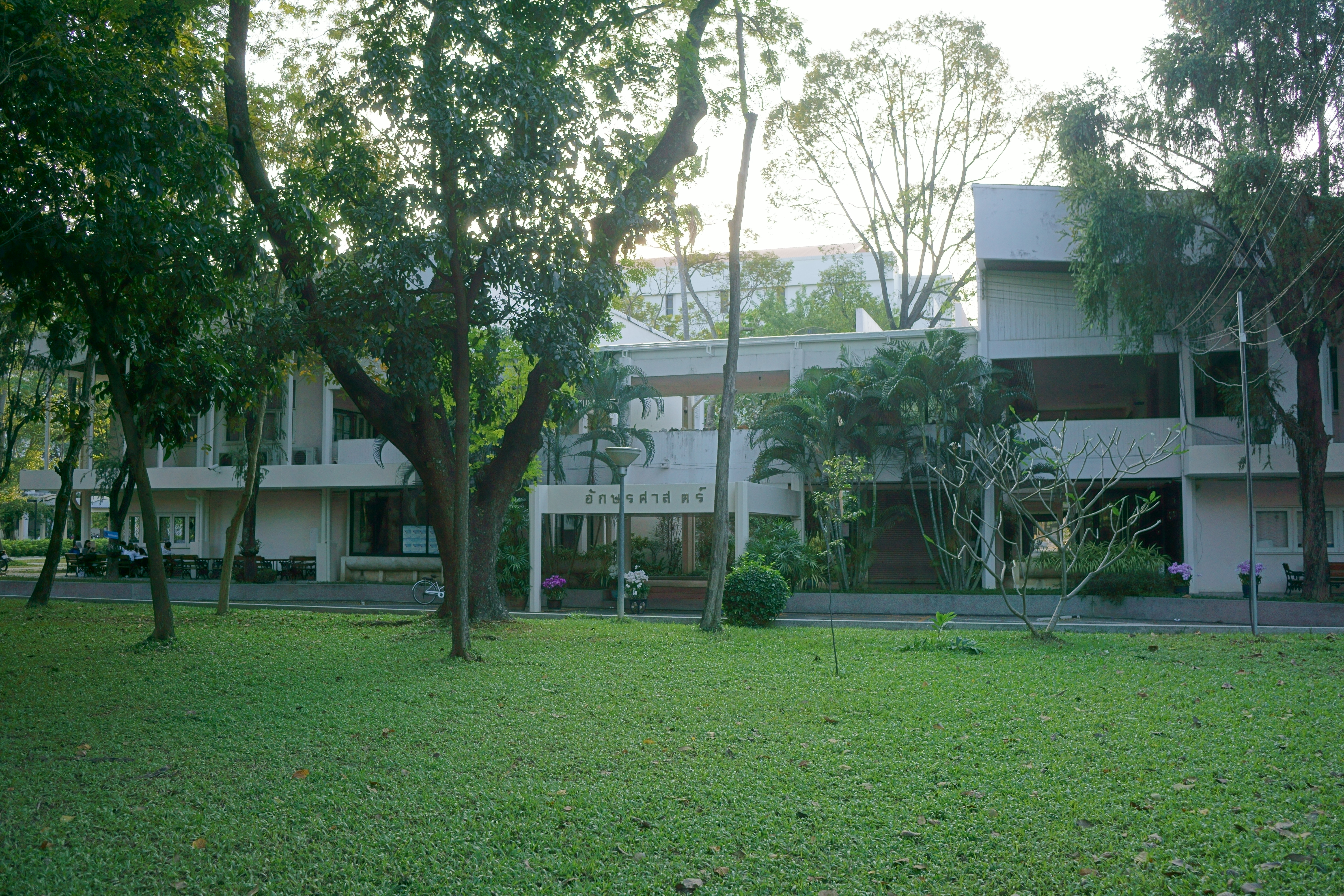 Faculty of Art, Silpakorn University building in Sanam Chandra Palace Campus (2017).